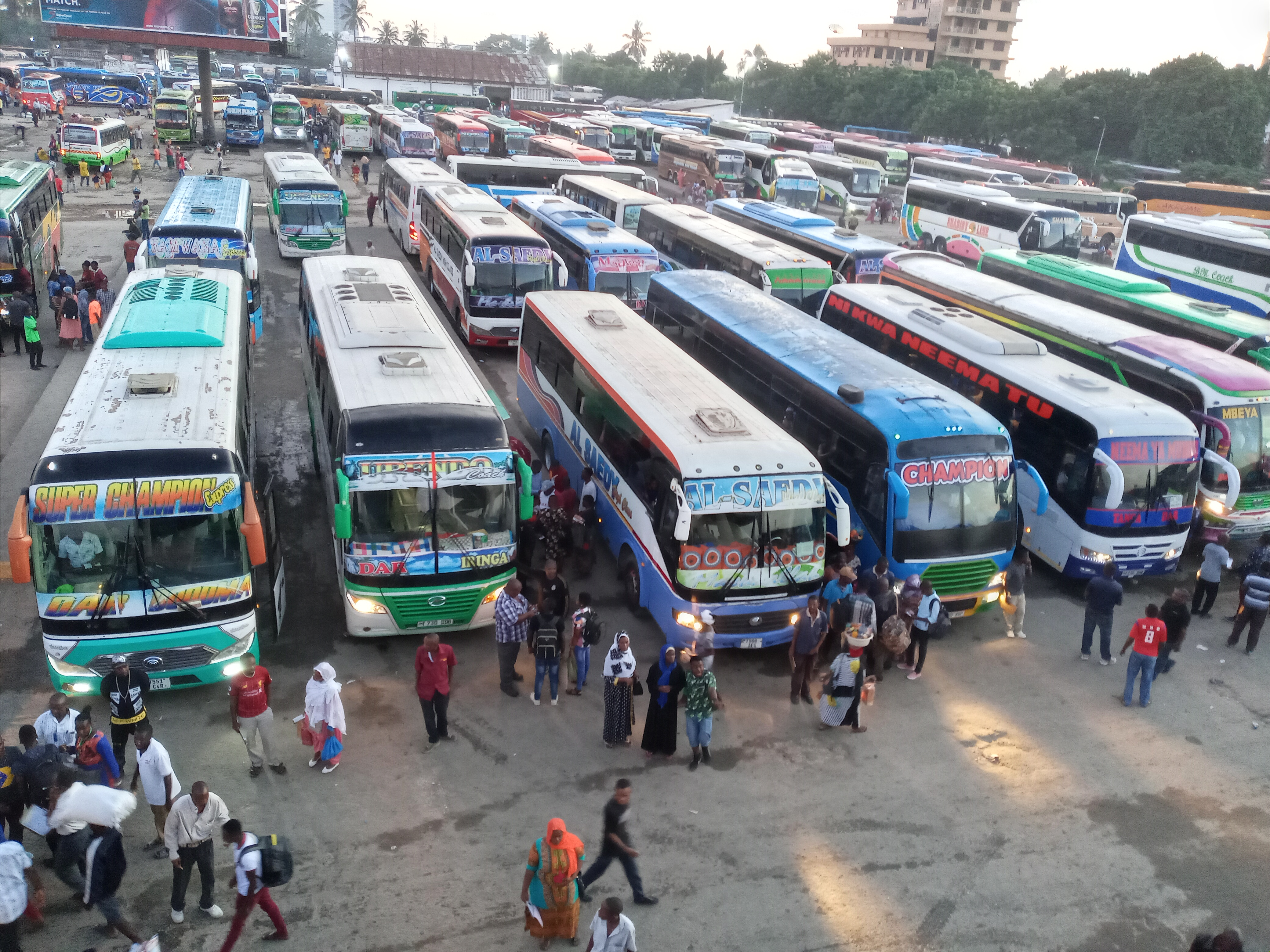 This is an image with the theme "Africa on the Move or Transport" from: Tanzania